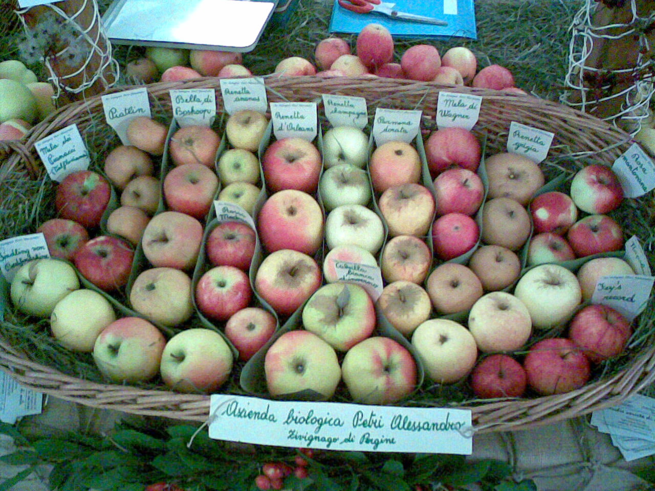 Variety of ancient apples from the Val di Non.